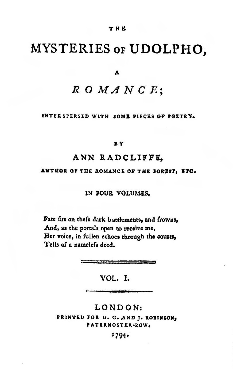 Cover: "Mysteries of Udolpho" (Ann Radcliffe).